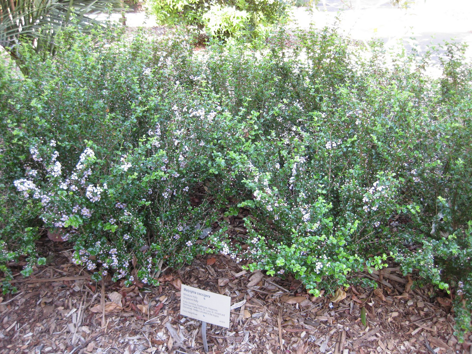 Photographed at the Royal Botanic Gardens Sydney (Australia) in December